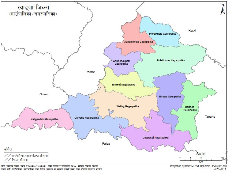 11 local units of Syangja District.